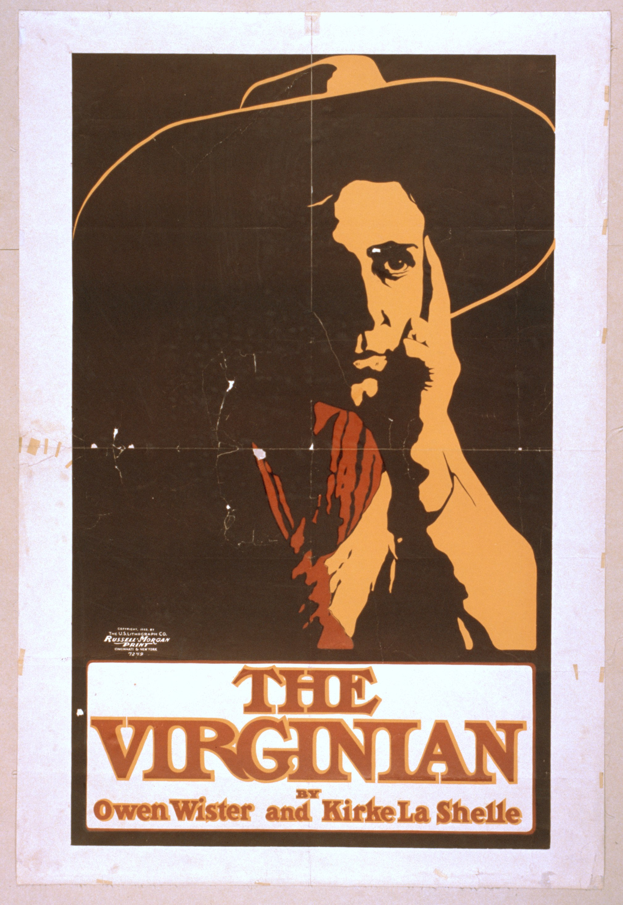 Title: The Virginian by Owen Wister and Kirke La Shelle. Abstract/medium: 1 print : color lithograph ; sheet 106 x 72 cm. (poster format)